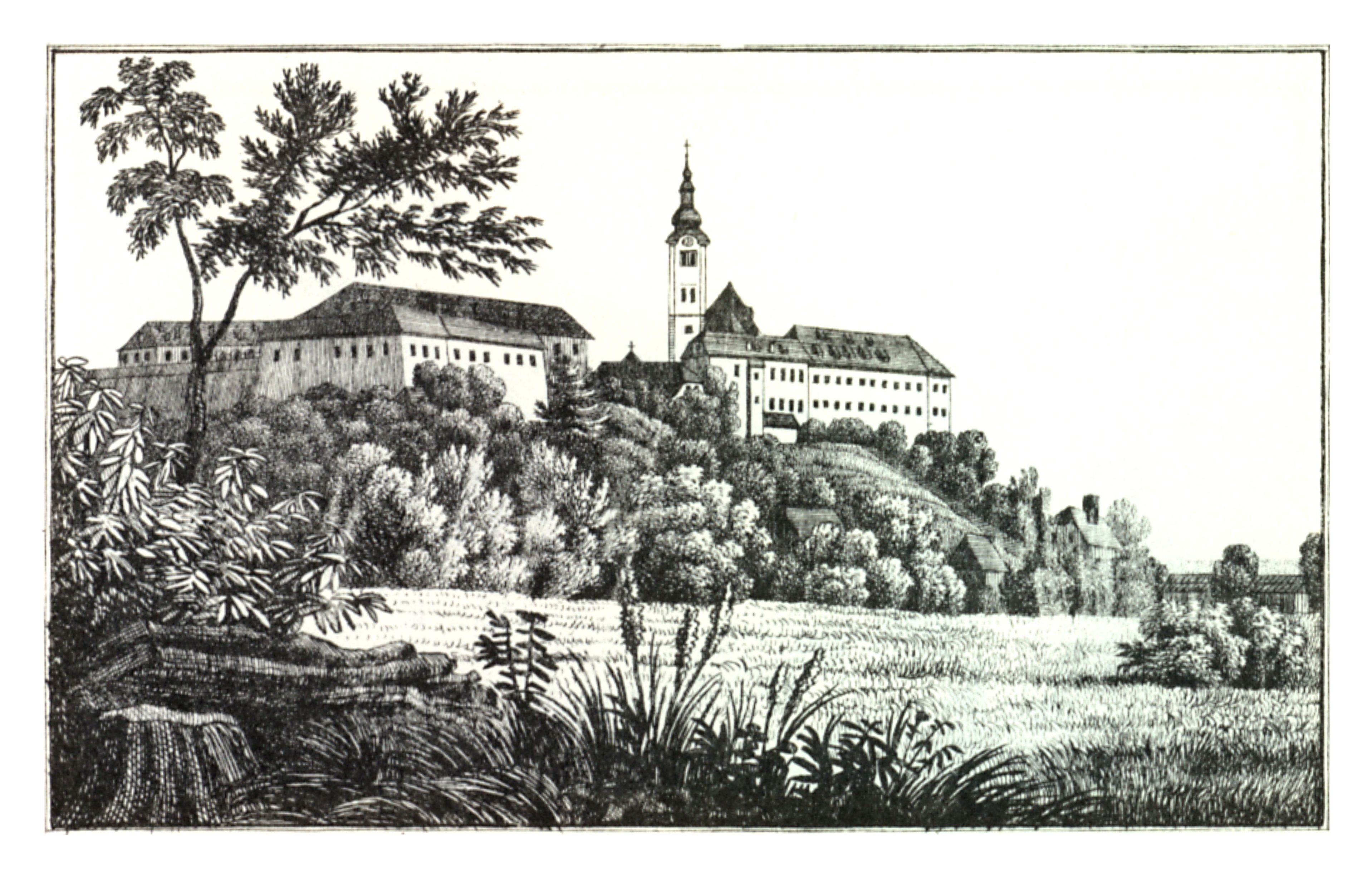 J. F. Kaiser - lithographirte Ansichten der Steyermärkischen Städte, Märkte und Schlösser Graz, 1825 Joseph Franz Kaiser (1786–1859) Alternative names J. F. KaiserDescriptionAustrian printer and editorDate of birth/death 11 March 1786 19 September 1859Location of birth/death Graz (Styria) GrazAuthority control : Q1499963 VIAF: 30629353 ISNI: 0000 0000 3083 0153 LCCN: n87141671 GND: 129880159 NLP: A24960305 WorldCat creator QS:P170,Q1499963 Scanprojekt Community Projektbudget 2012 This scan or this PDF-file was created within the GLAM-project Bookscanning, supported by Wikimedia Germany and Wikimedia Austria as a part of the community-project to capture books, documents and pictures which are not eligible to copyright or for which the copyright has expired. This document describes or depicts an object which is located in Austria today. Send requests for uncompressed scans to Hubertl. This work is in the public domain in its country of origin and other countries and areas where the copyright term is the author's life plus 100 years or fewer. You must also include a United States public domain tag to indicate why this work is in the public domain in the United States. This file has been identified as being free of known restrictions under copyright law, including all related and neighboring rights.